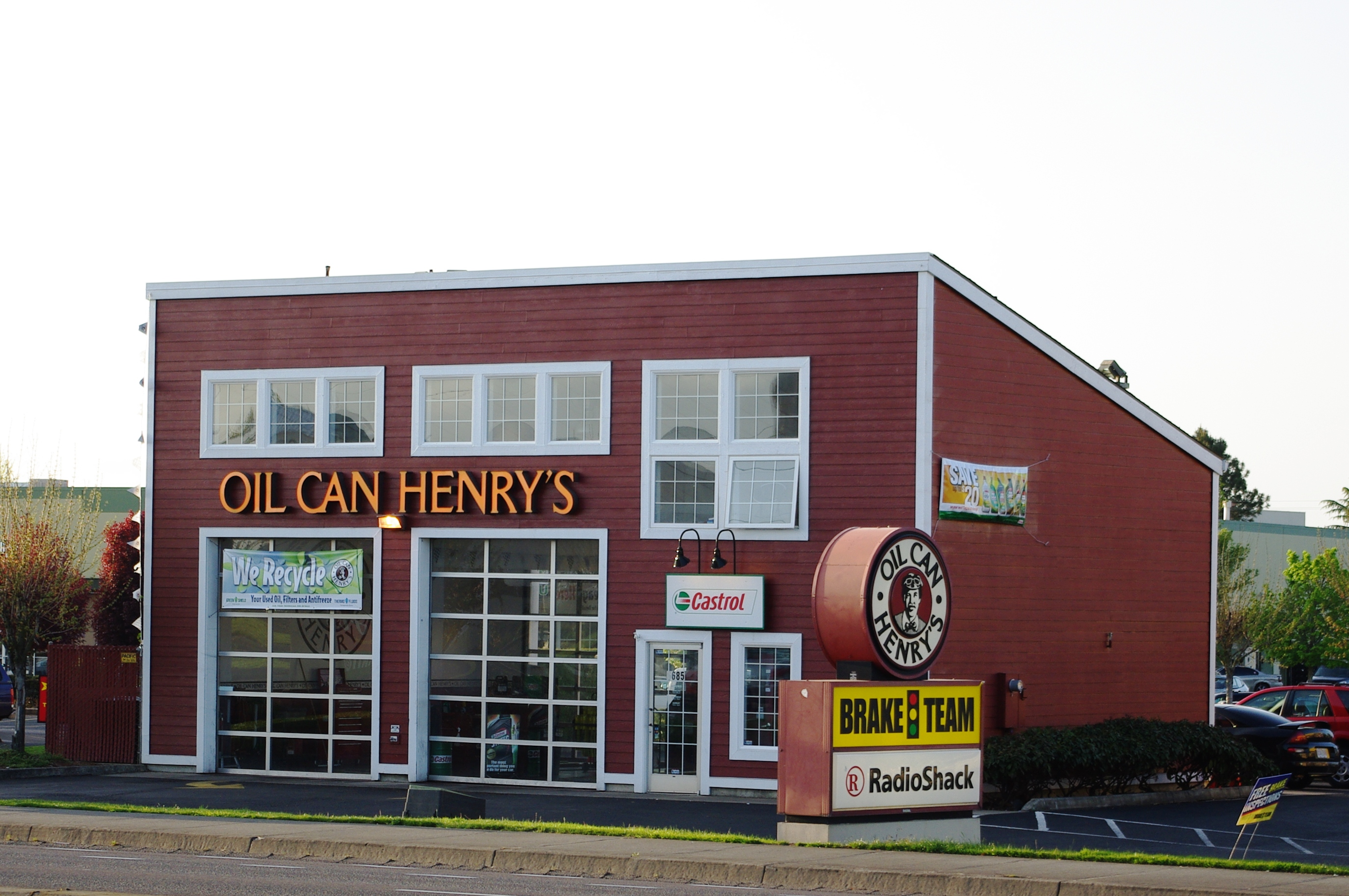 Oil Can Henry's on TV Highway in Hillsboro, Oregon, next to Fred Meyer. The company was sold to the parent of Valvoline in 2016, and this location was rebranded as a Valvoline Instant Oil Change in March 2017.